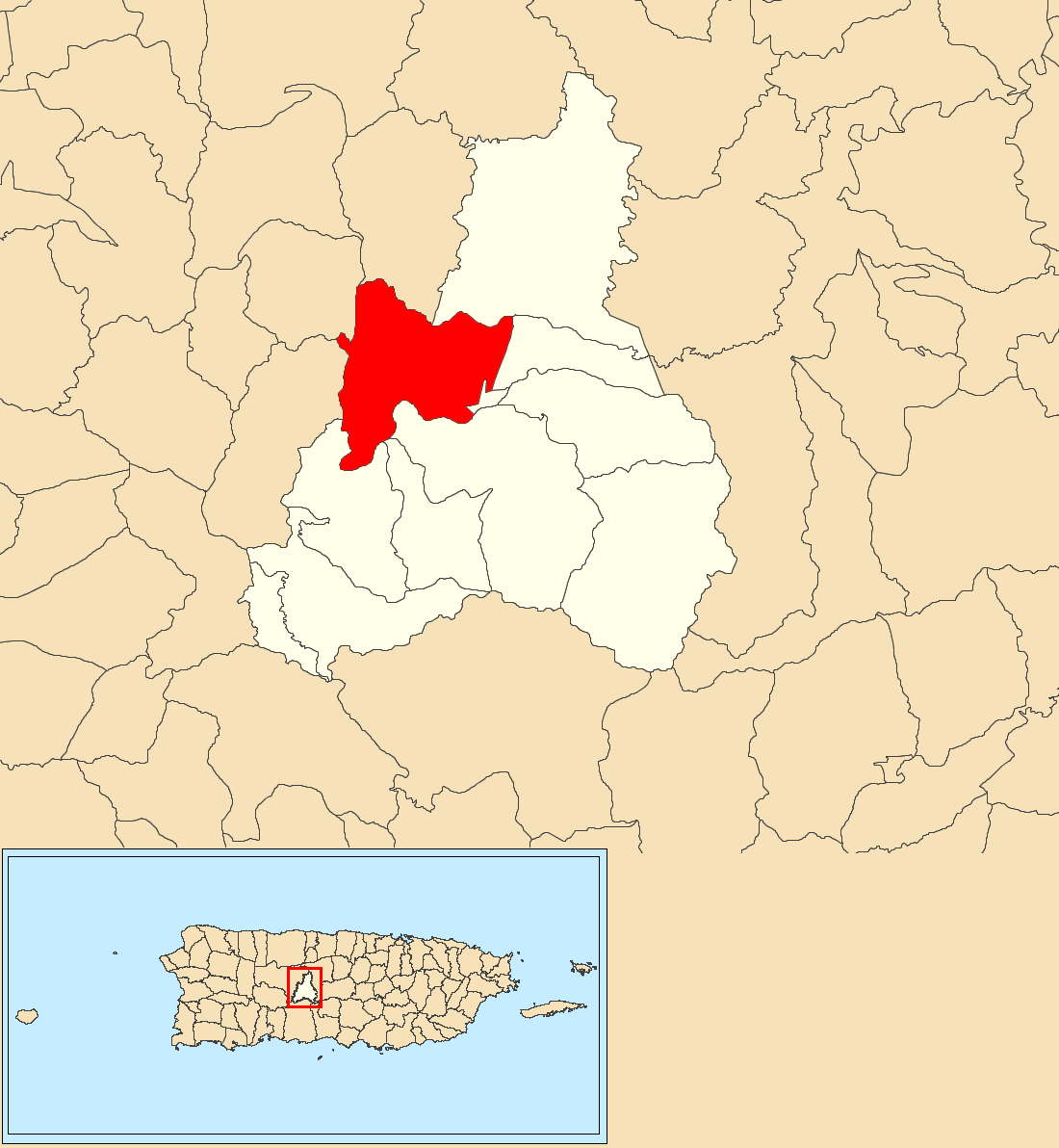 Jayuya Abajo, Jayuya, Puerto Rico locator map